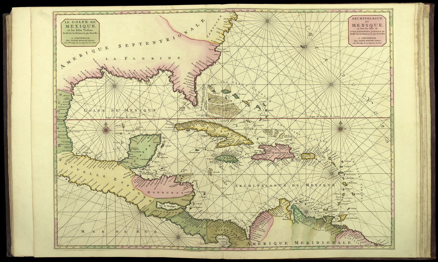 West Indies from «Le Neptune François Ou Atlas Nouveau Des Cartes Marines: Levées Et Gravées Par Ordre Exprés Du Roy. Pour L'Usage De Ses Armées De Mer».